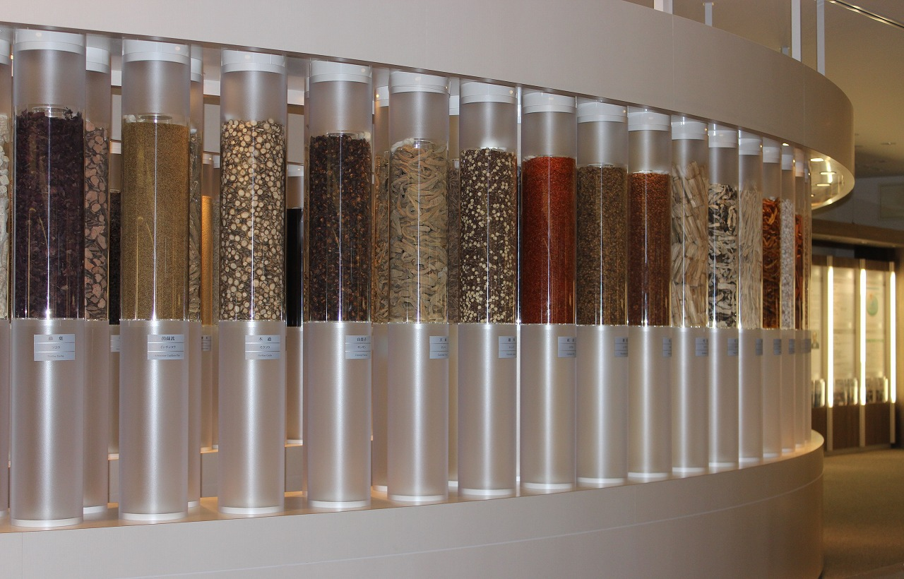 a herbal medicine